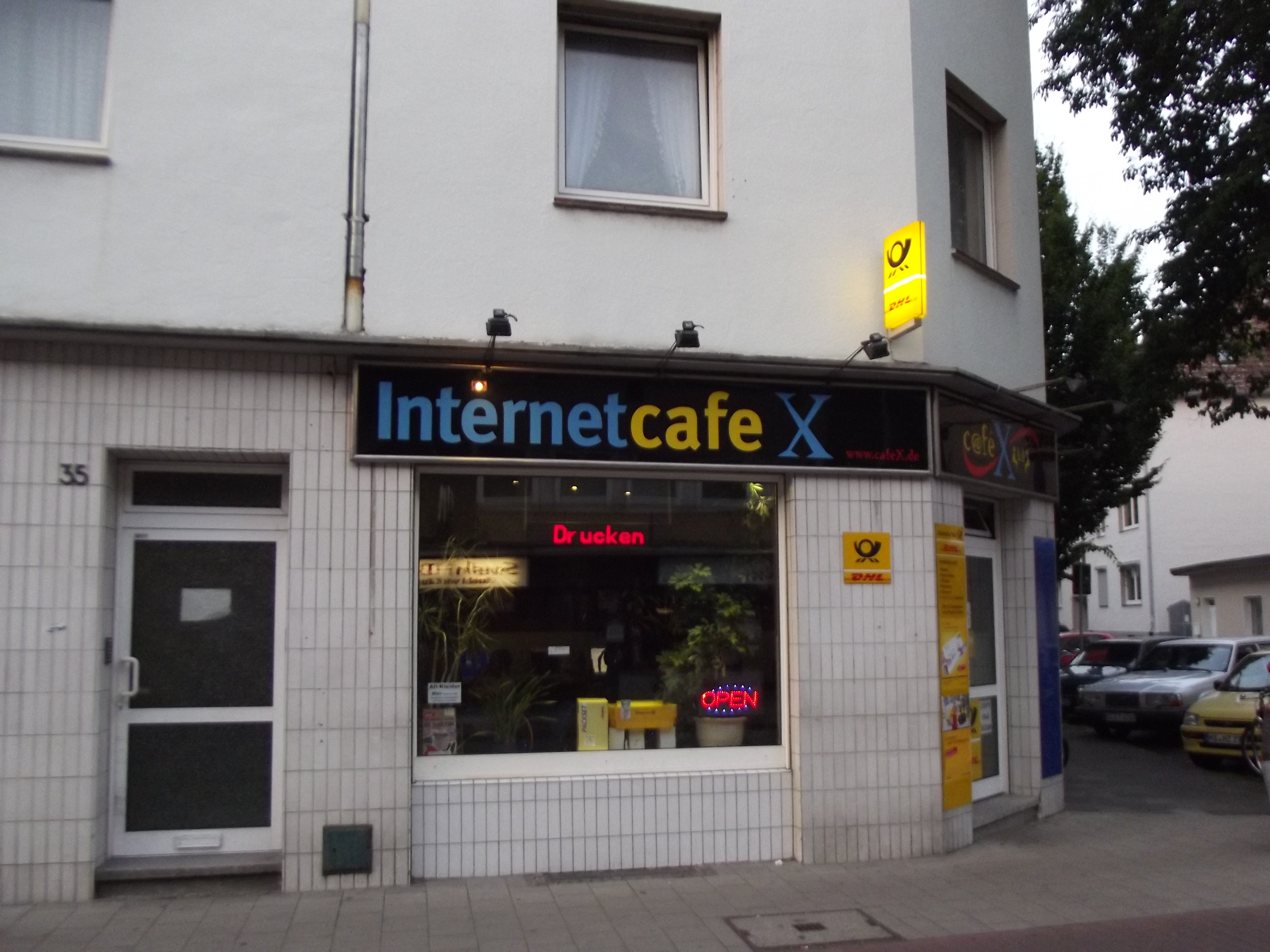 Pic shows the combination of cybercafé and sub post office. While many internet cafés work with private parcel delivery service, this one is associated with the federal German provider known as (Deutsche) Post